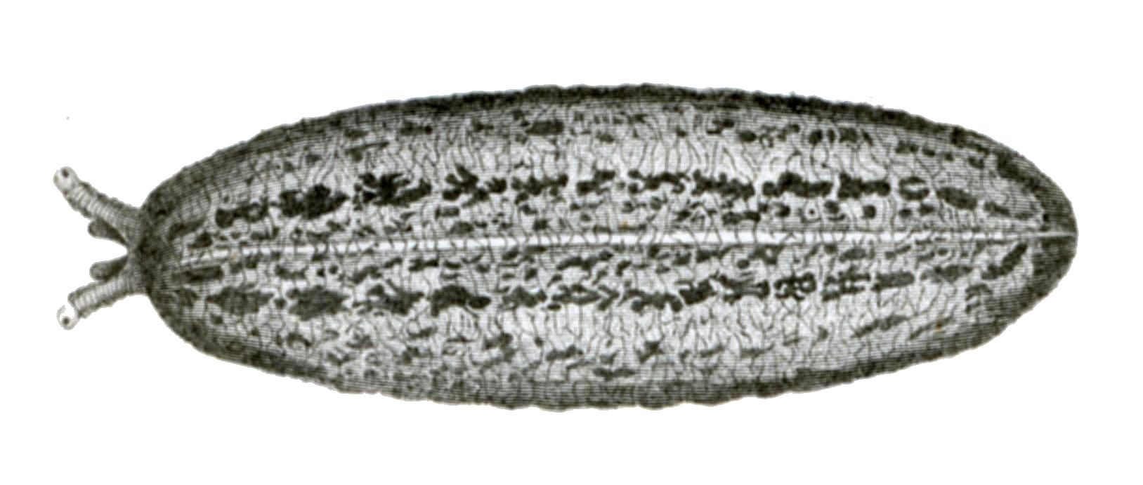 The slug, Leidyula floridana (Florida leatherleaf) - dorsal view, ex Binney 1878.